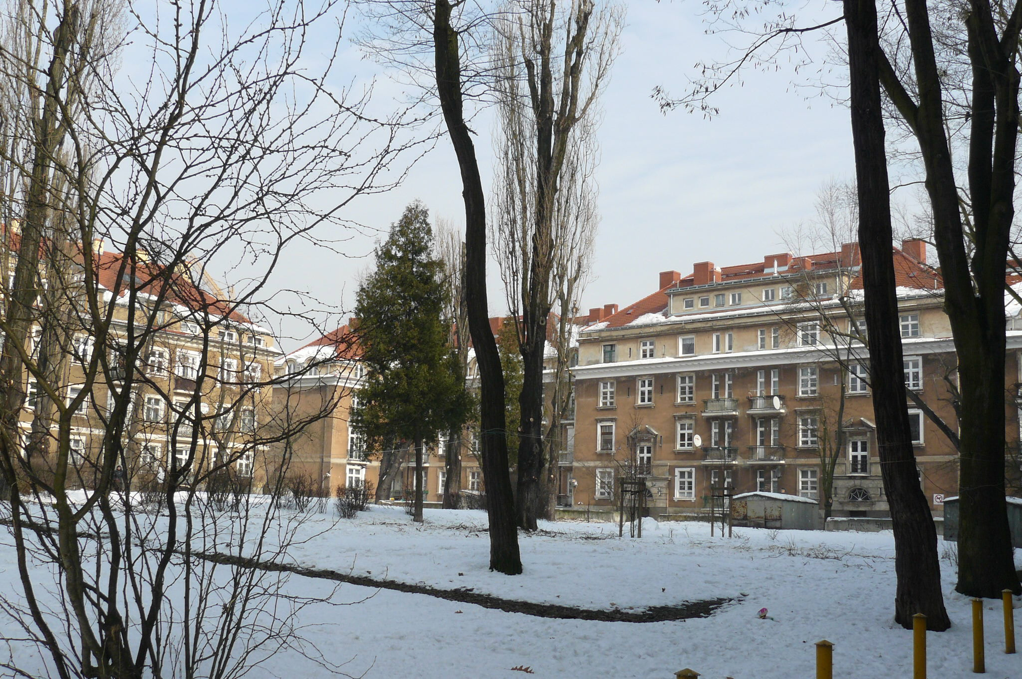 Poznan, Przybyszewskiego 43 Street.